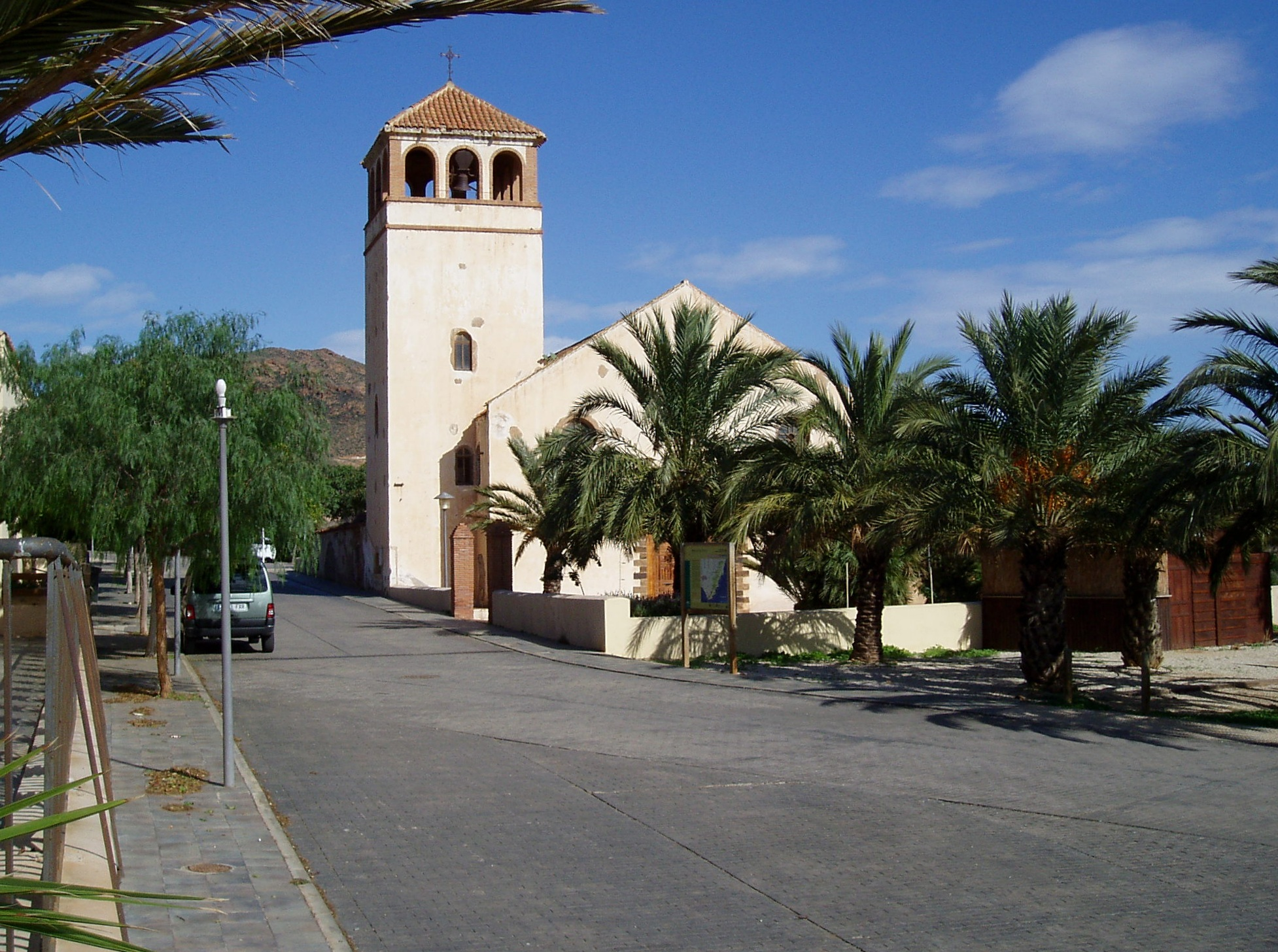 Church of Rodalquilar in Andalusia, Spain